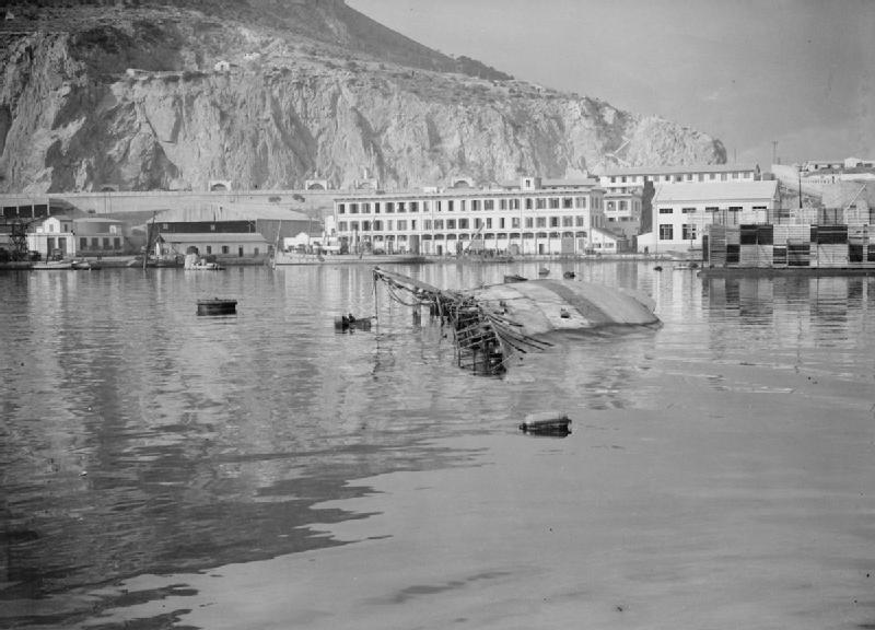 The "VC" Ship. 22 and 23 November 1942, Oran and Mers-el-kebir. HMS Walney, Ex-american Coast Guard Cutter Lying on Its Side by the Inner Breakwater of Oran Harbour. After the Ship Had Reached Its Objective; To Break the Boom in Oran For the North African Landings, Her Commanding Officer Captain Peters Received a Posthumous VC For His Part in the Action. the Loss of Life Was Heavy But the Objective Was Achieved.